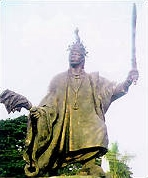 Ancient King of Ijebu Kingdom